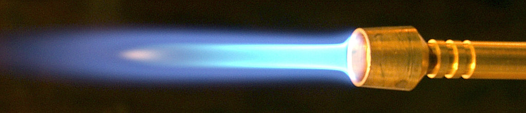 Fuel Rich Butane Blow Torch Flame photo taken by myself --Rnbc 01:02, 2005 Jan 9 (UTC)